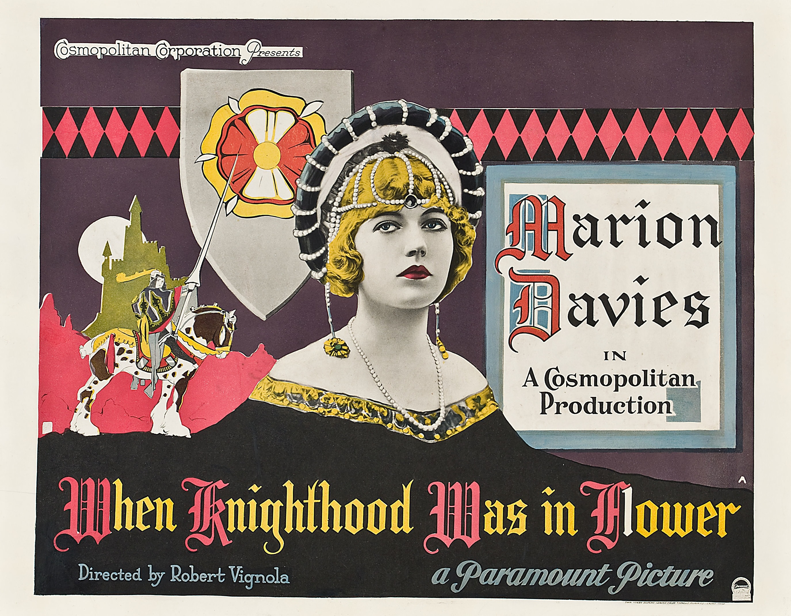 When Knighthood Was in Flower is a 1922 American silent historical film. This is a publicity half sheet.